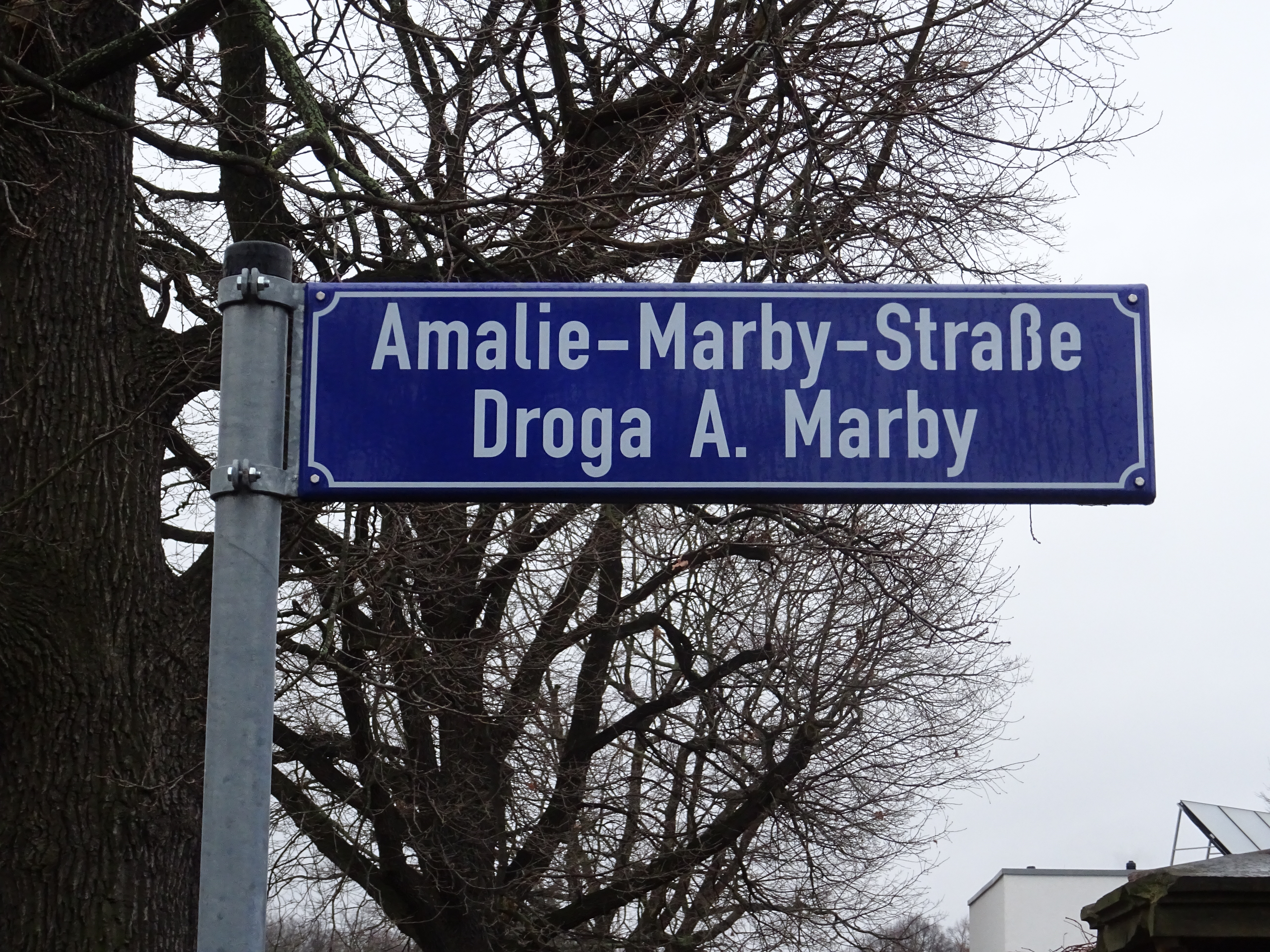 Street sign of Amalie-Marby-Straße in Cottbus